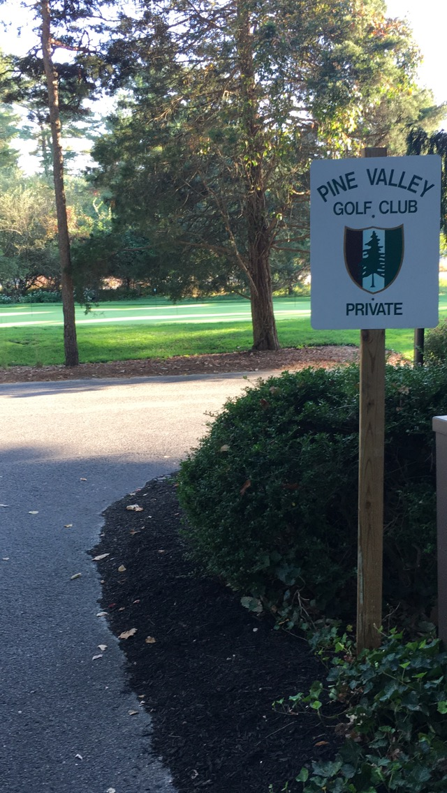 Entrance to PVGC